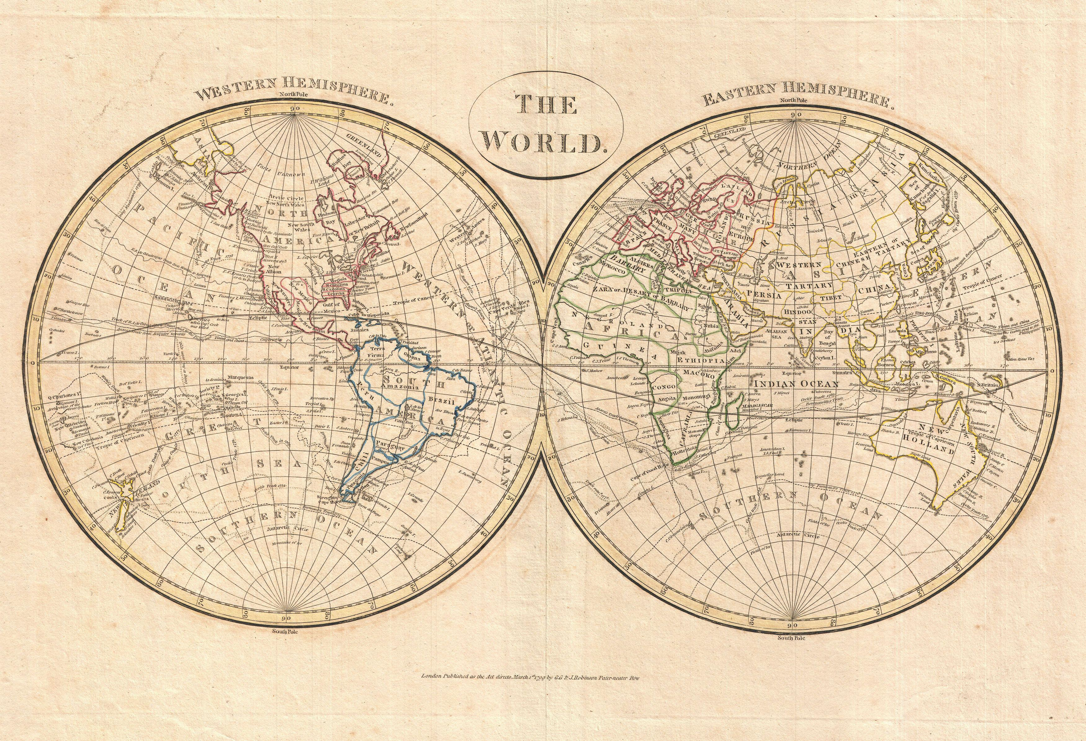 A fine example of Clement Cruttwell's 1799 map of the world in two hemispheres. This is an elegant world map designed to illustrate the activities of important explorers of the 17th and18th centuries. The tracks of Cook, Anson, Bourgainville, Wallis, Furneaux, and others are noted. Cook's work in the late 18th century, being of extreme importance, is emphasized. Cartographically this map follows established convention but does feature the most recent discoveries of Cook and Vitus Bering in the Arctic. Inland detail is somewhat minimal and focuses on important cities and countries. There are a few anomalies worthy of note. Tasmania is attached to the Australian mainland. The southern shores of New Guinea are unknown and left blank. Japan is incorrectly aligned along the horizontal. The Sea between Japan and Korea, the name of which is currently being disputed between Korea and Japan, is here identified as the Sea of Corea. In North America the apocryphal River of the West runs from the west coast inland. Also in North America, though the discoveries of Hearne are noted, the work of MacKenzie, further west, is missing (possibly Cruttwell was an investor in the Hudson Bay Company and didn't want to recognize the work of MacKenzie and the rival North West Company?). Antarctica, which has not yet been discovered, is absent. The whole exhibits delicate outline color and fine copper plate engraving in the minimalist English style prevalent in the late 18th and early 19th centuries. Drawn by G. G. and J. Robinson of Paternoster Row, London, for Clement Cruttwell's 1799 Atlas to Cruttwell's Gazetteer.